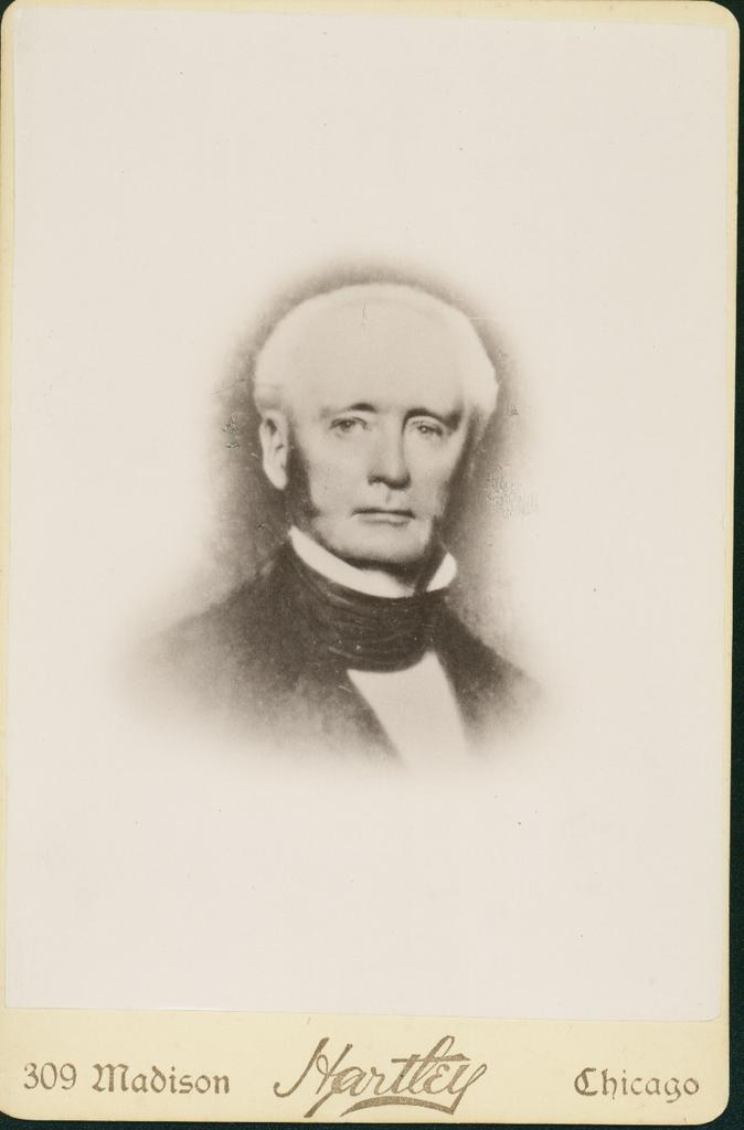 Heman Allen (of Colchester)